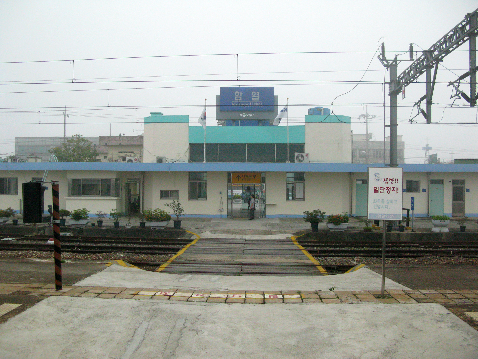 Honam Line Hamyeol Station